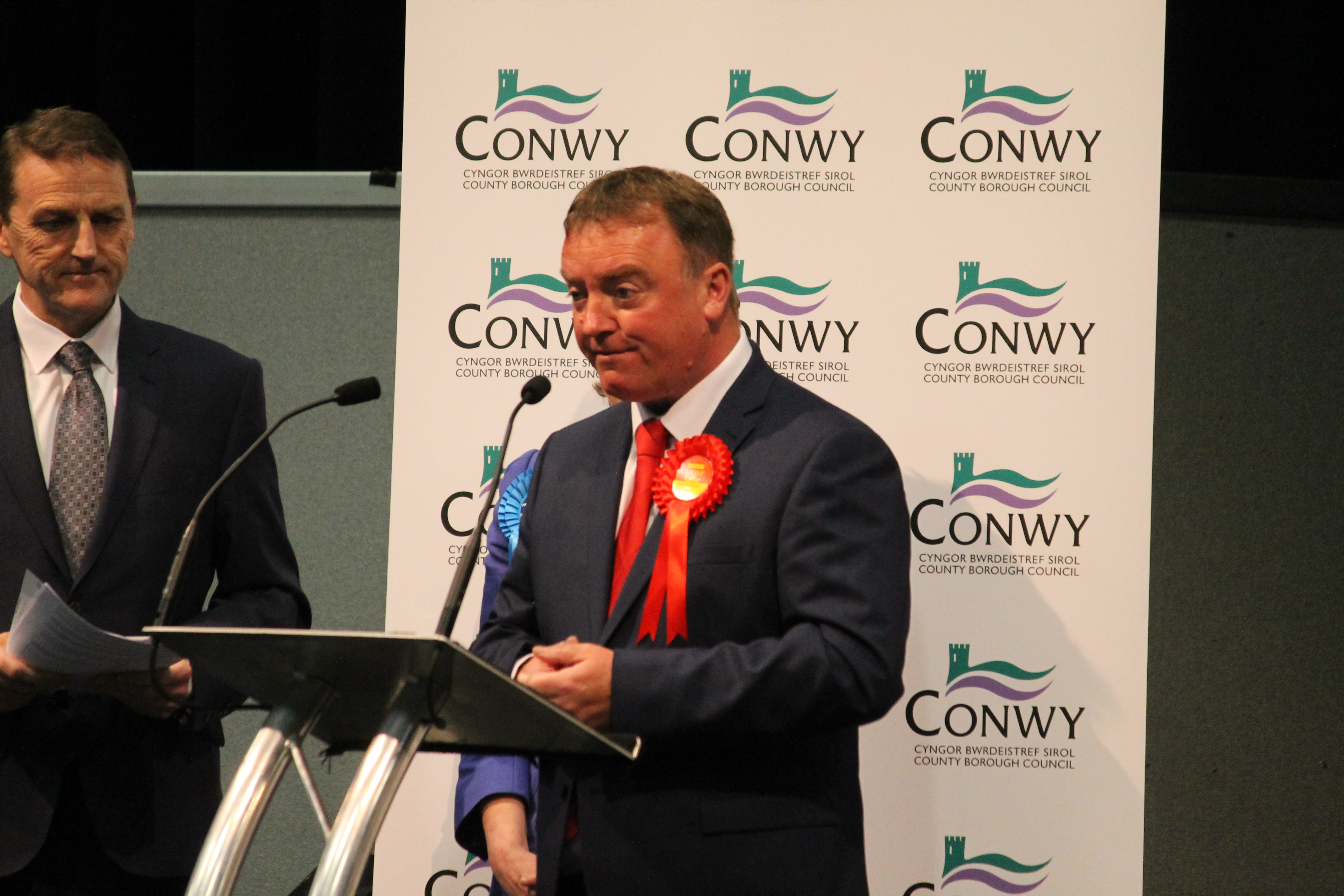 West Clwyd and Aberconwy Count for the National Assembly Election 5 May 2016. Eifion Wyn Williams, Llafur; 3ydd.